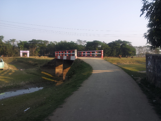 Islampur Bridge, Syedpur shaharpara union, Jagannathpur, Sunagamganj, Sylhet